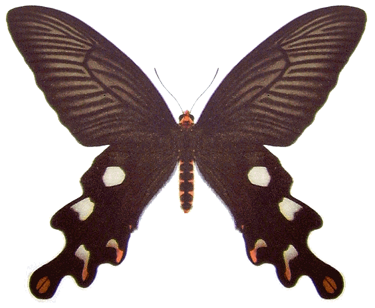 Great Windmill, female, upperwing